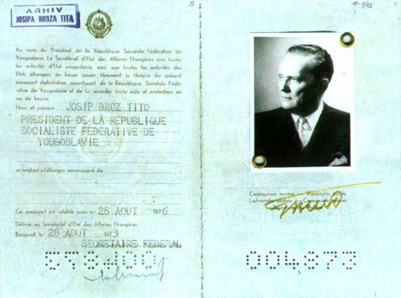 Diplomatic passport of Josip Broz Tito from 1973.